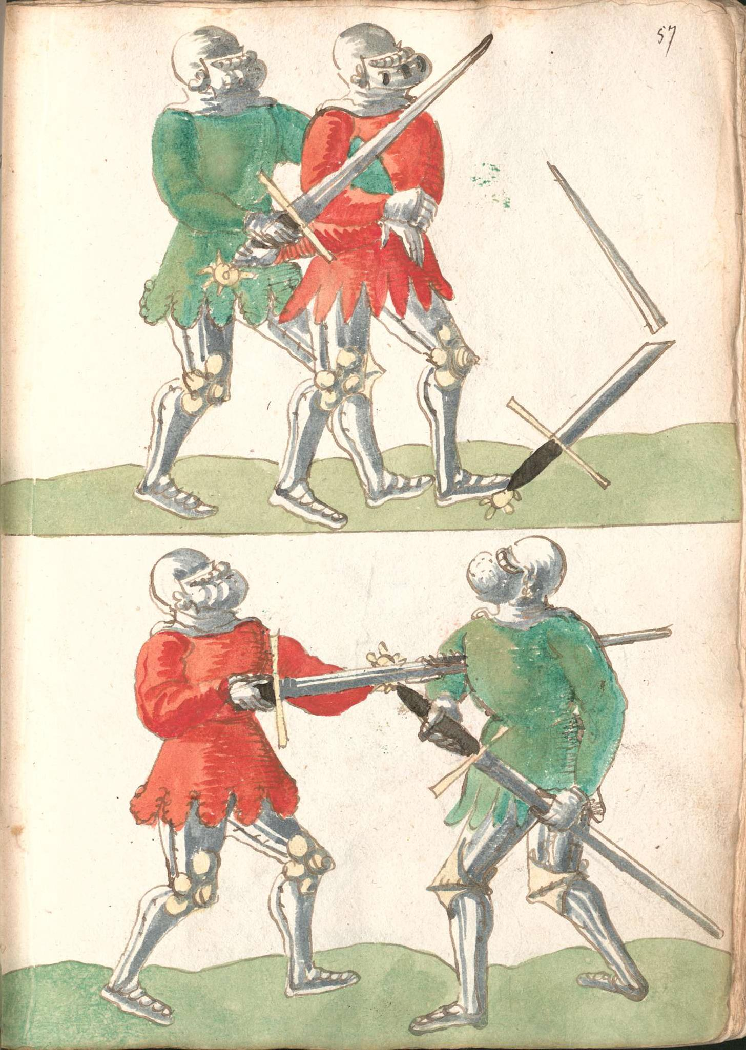 Folio 57r of the Cgm 3711, a fencing manual by Jörg Wilhalm Hutter dating to ca. 1523. The scene depicted is exceptional for showing a broken longsword.